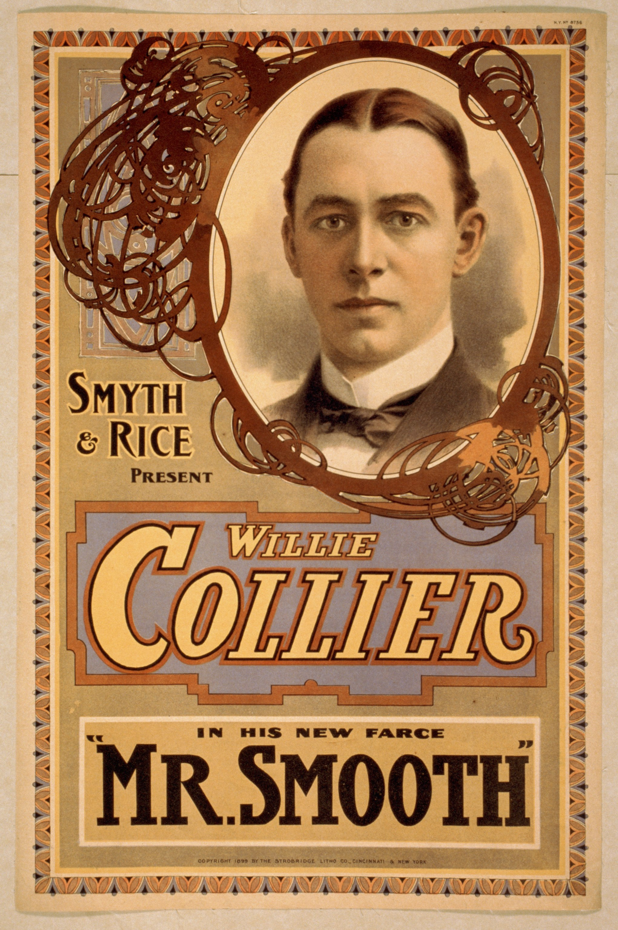 Title: Smyth & Rice present Willie Collier in his new farce Mr. Smooth Abstract/medium: 1 print : color lithograph ; sheet 74 x 49 cm. (poster format)